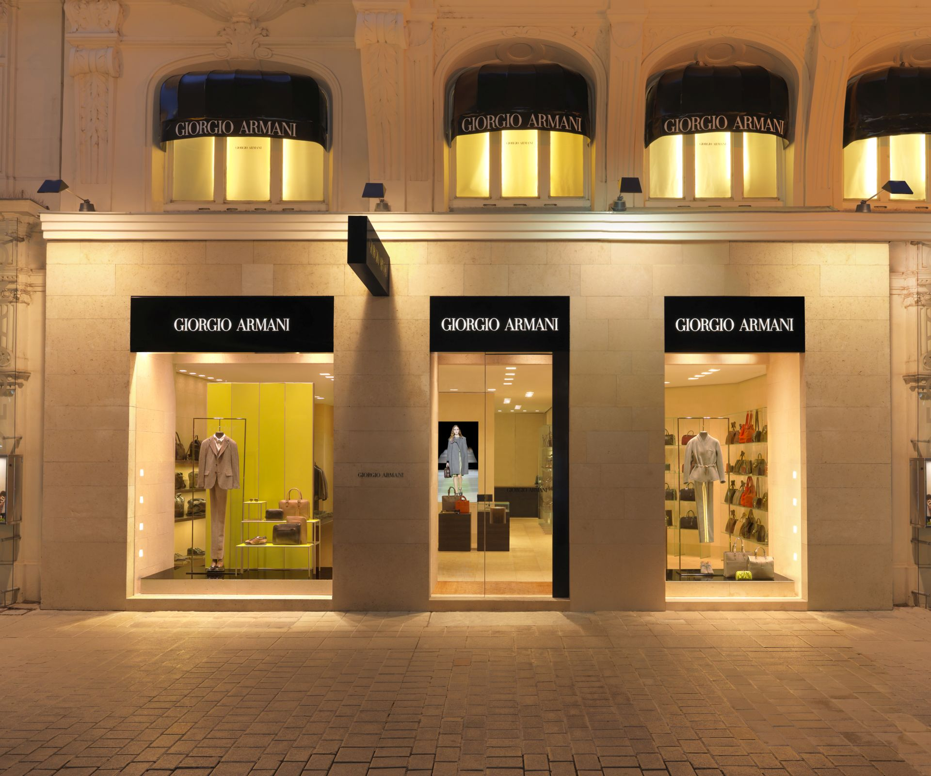 I did this photo for the website isatrends.at. I took it on 1st September 2014. The photo can also be seen at It was taken in Wien, at Kohlmarkt.